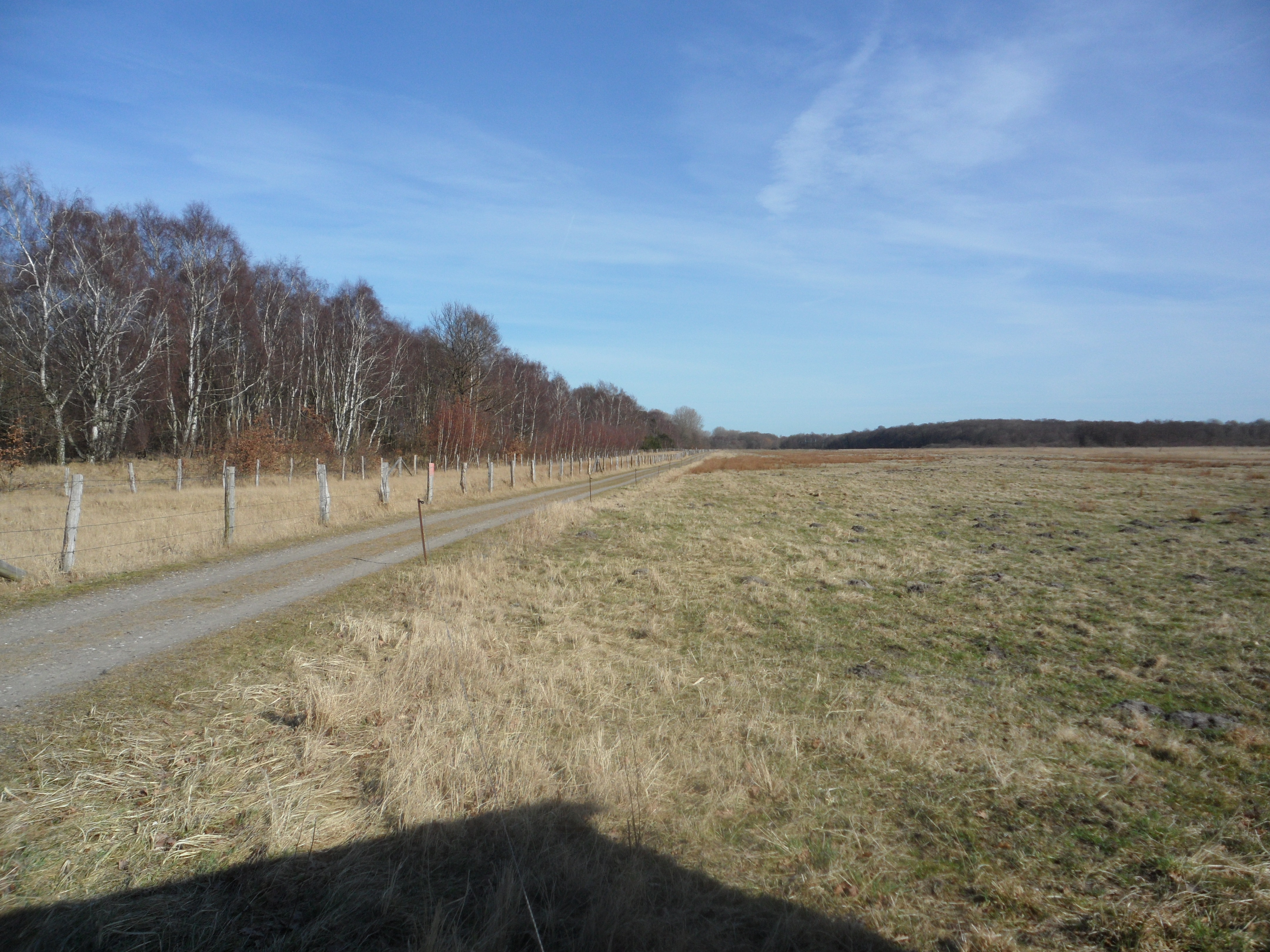 Part of the nature reserve Küstenlandschaft zwischen Priwall und Barendorf mit Harkenbäkniederung close to Priwall